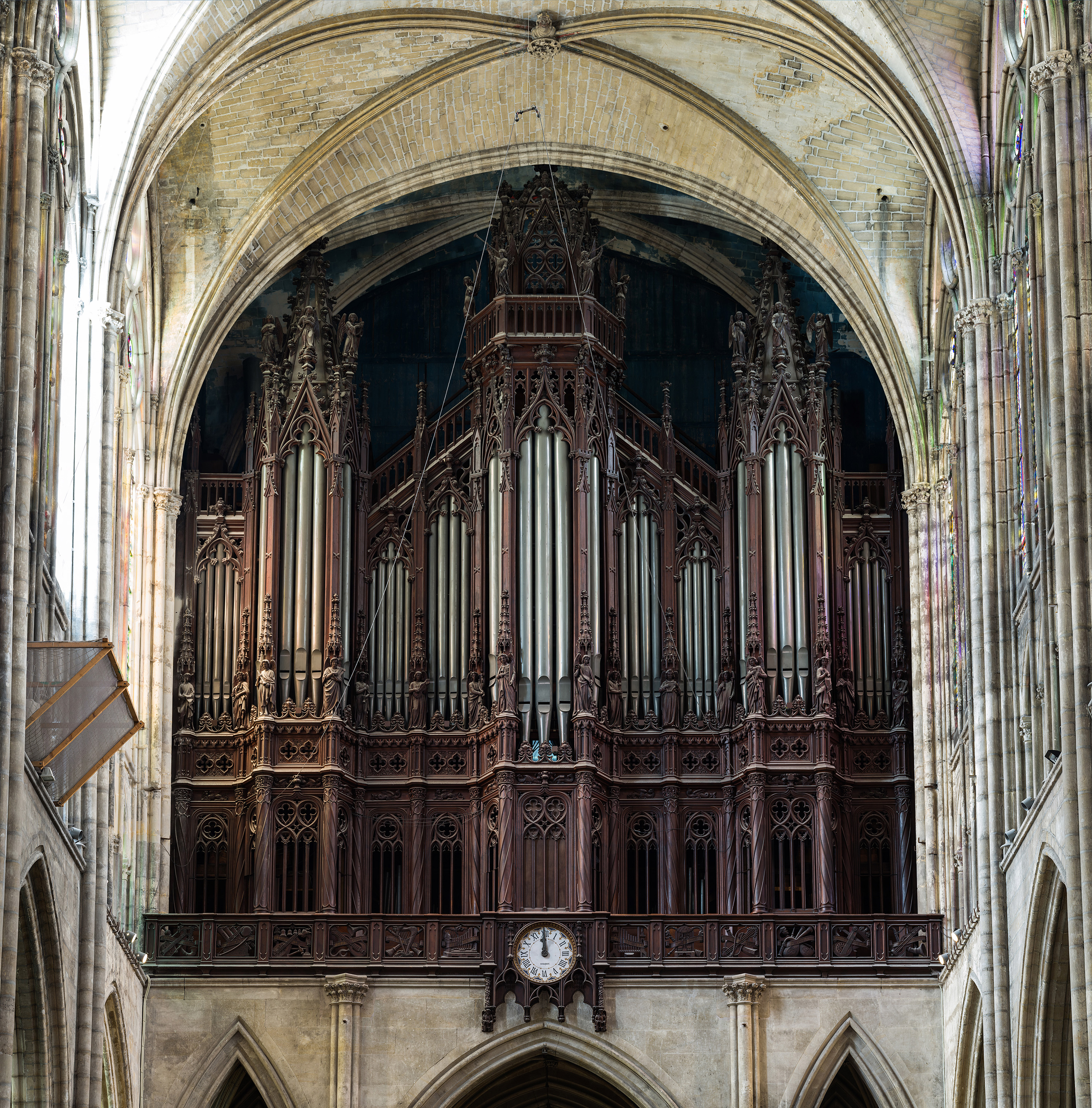 The choir stalls and mesericords of the Basilica of Saint Denis in Paris, France.